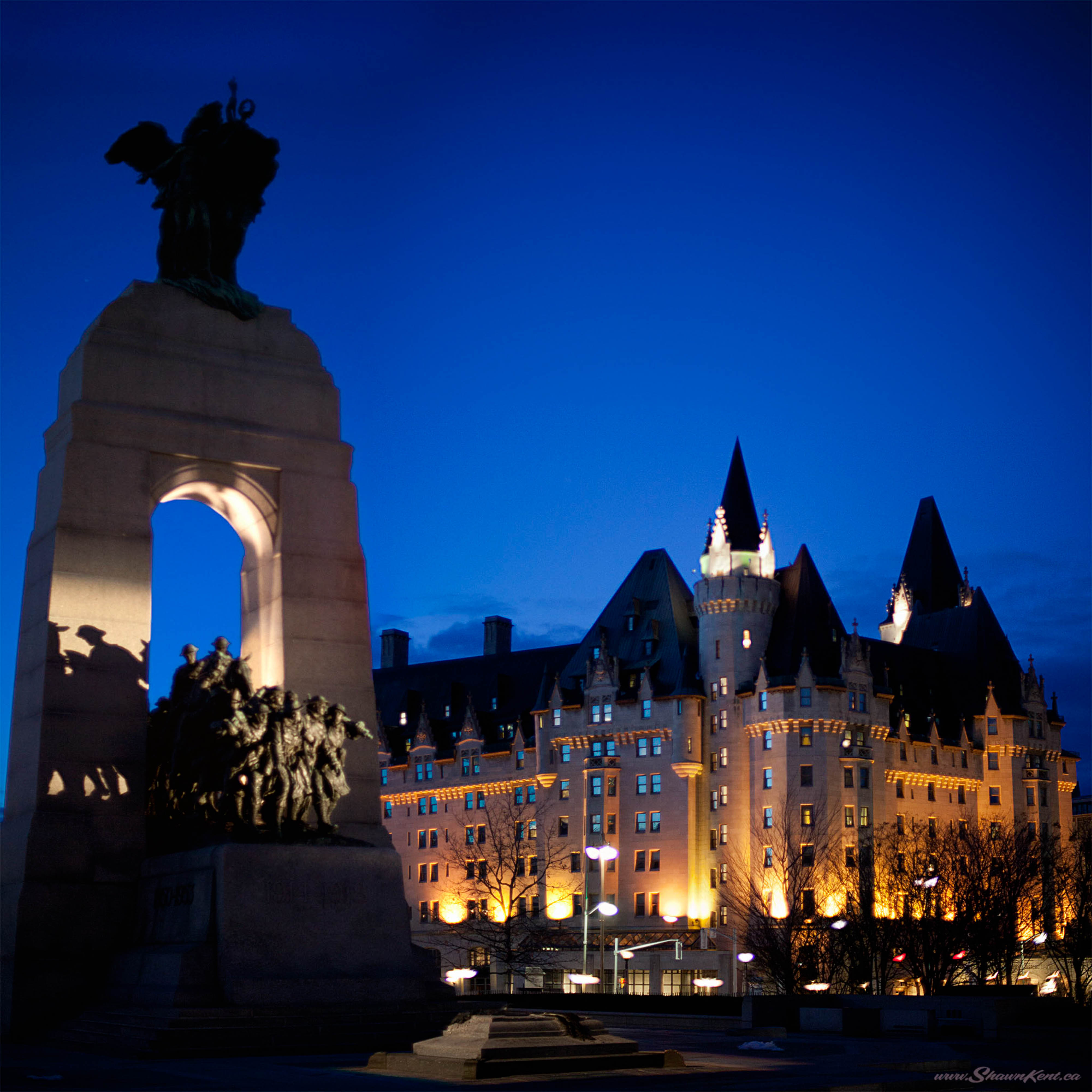 The National War Memorial in Ottawa, ON.